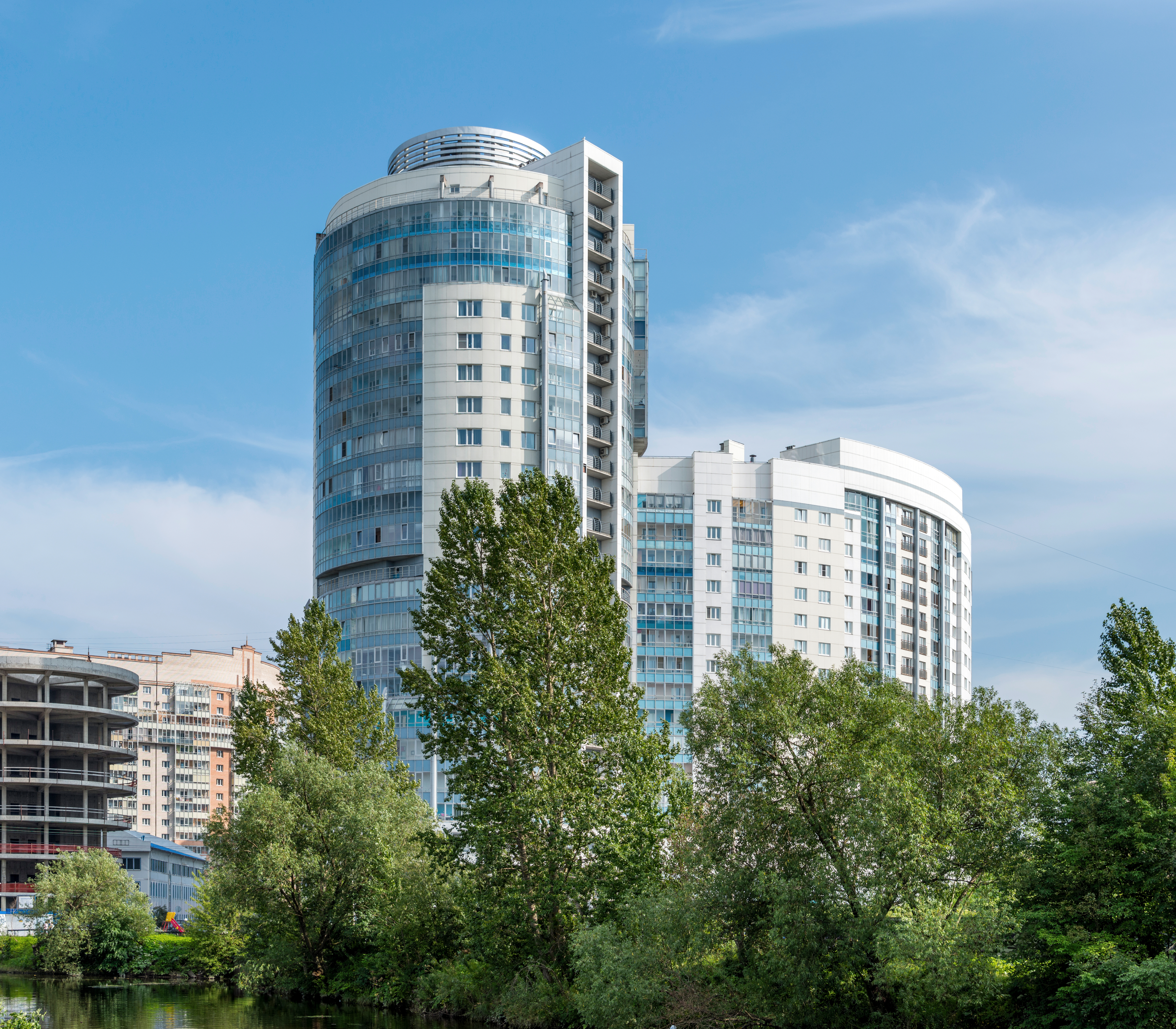 Beringa Street in Saint Petersburg